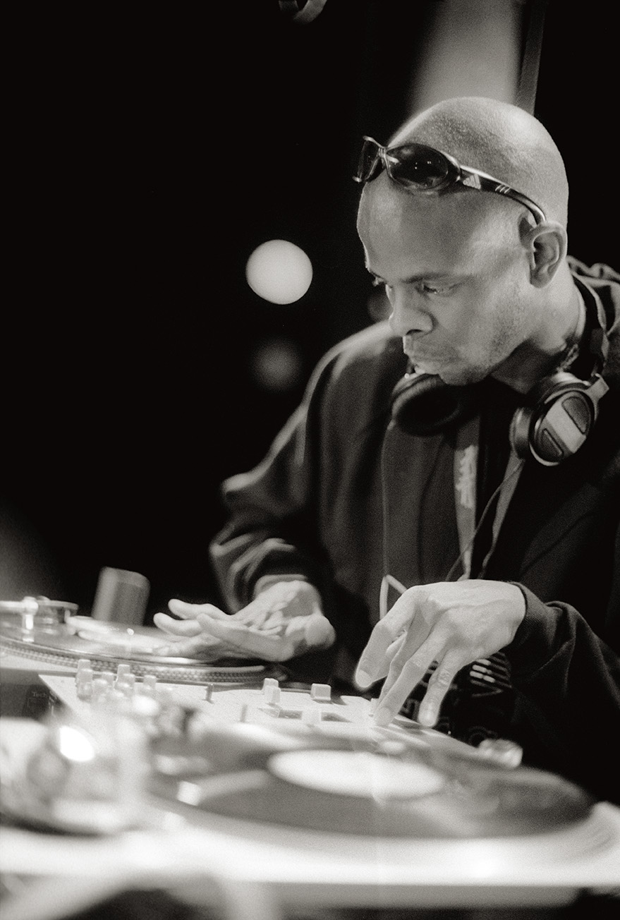 Dj Lord in full effect on the wheels of steel, 2000 with PE in Hamburg/Germany